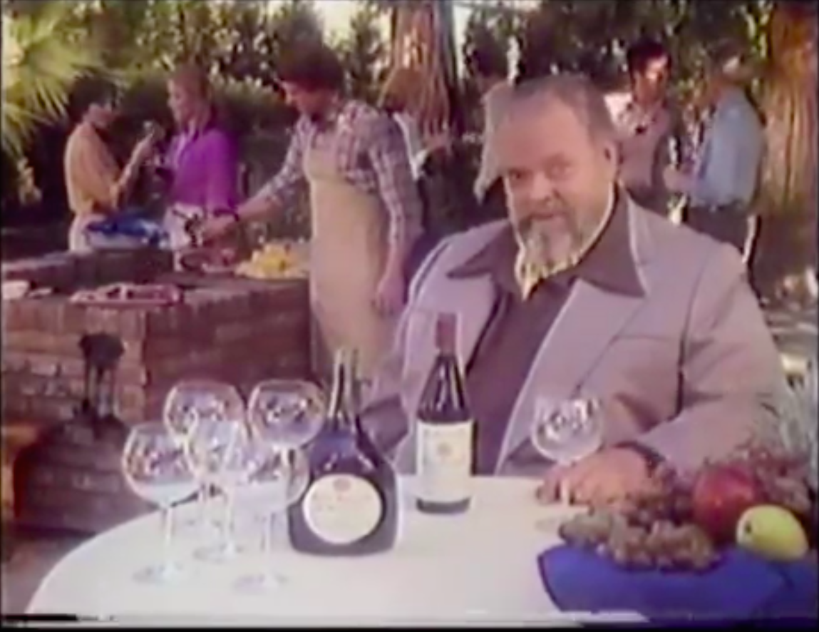 1970s wine advert